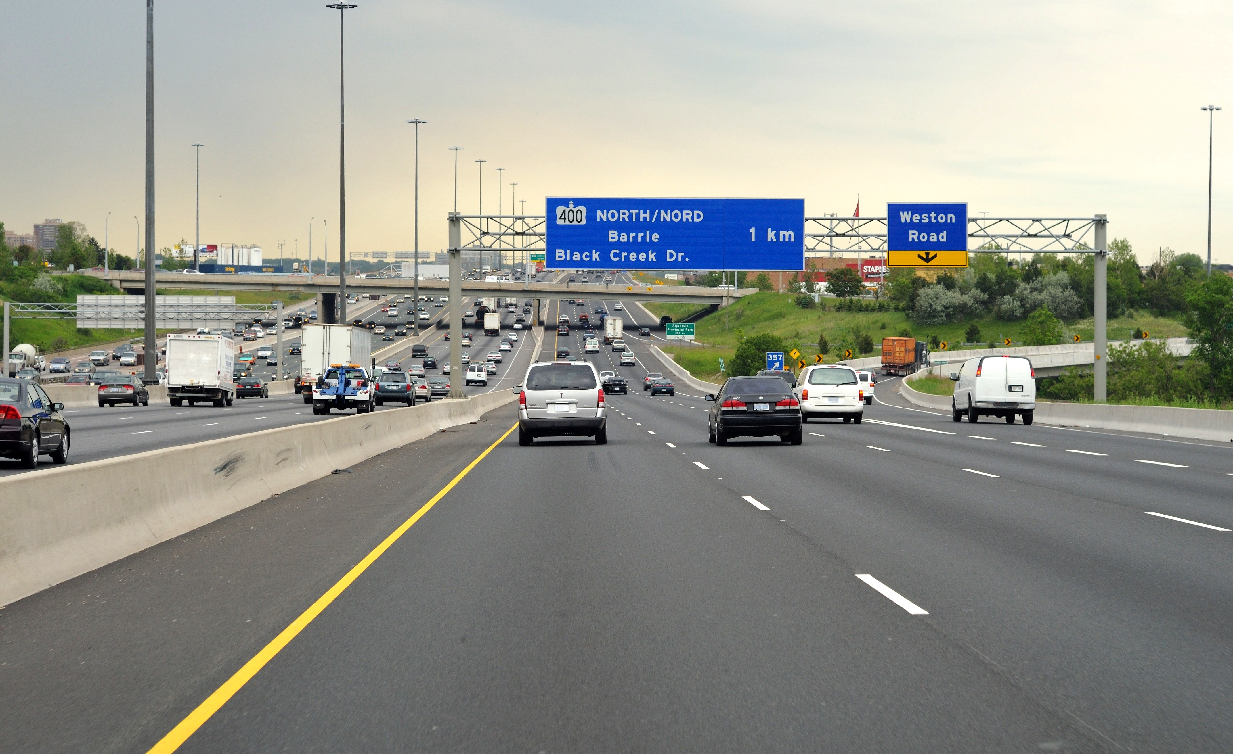 High quality image of eastbound Highway 401 at Weston Road in the collector lanes.